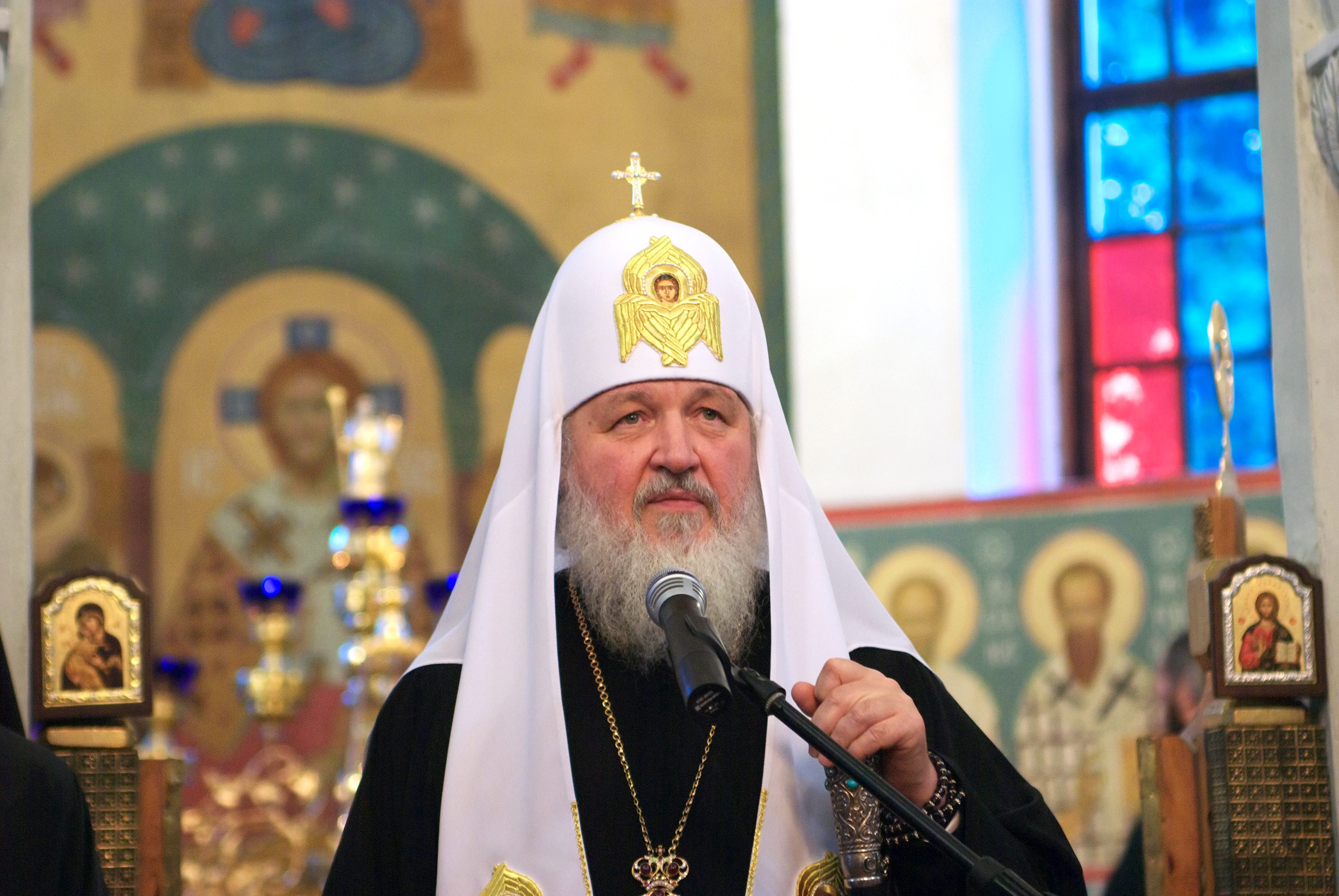 Patriarch Kirill I of Moscow